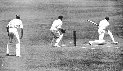 Herbert Sutcliffe sweeps Arthur Mailey during the first Ashes test in Sydney, 1924. Bert Oldfield is the wicket-keeper, and Jack Gregory is at slip. Sutcliffe made 59 and 115 in this match.